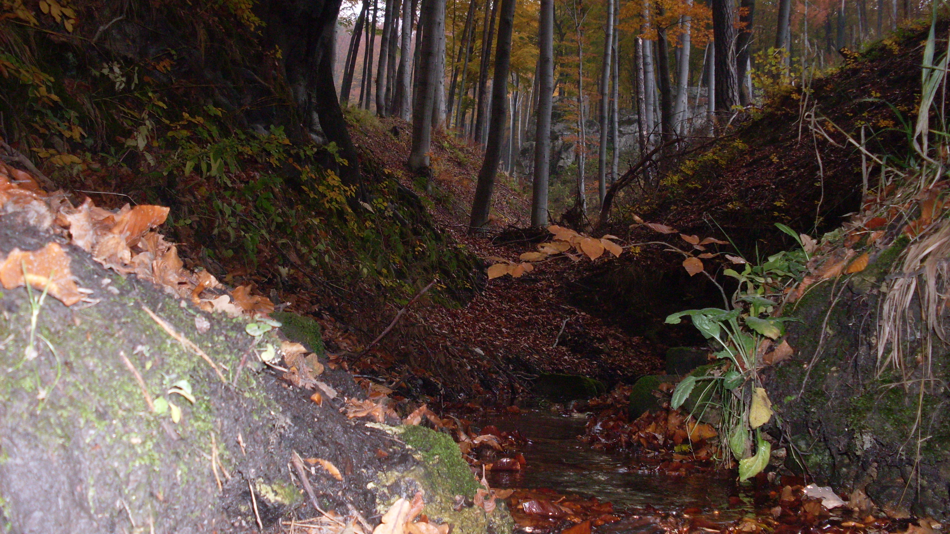 Dzwonek.Krzeszowice.Żbik